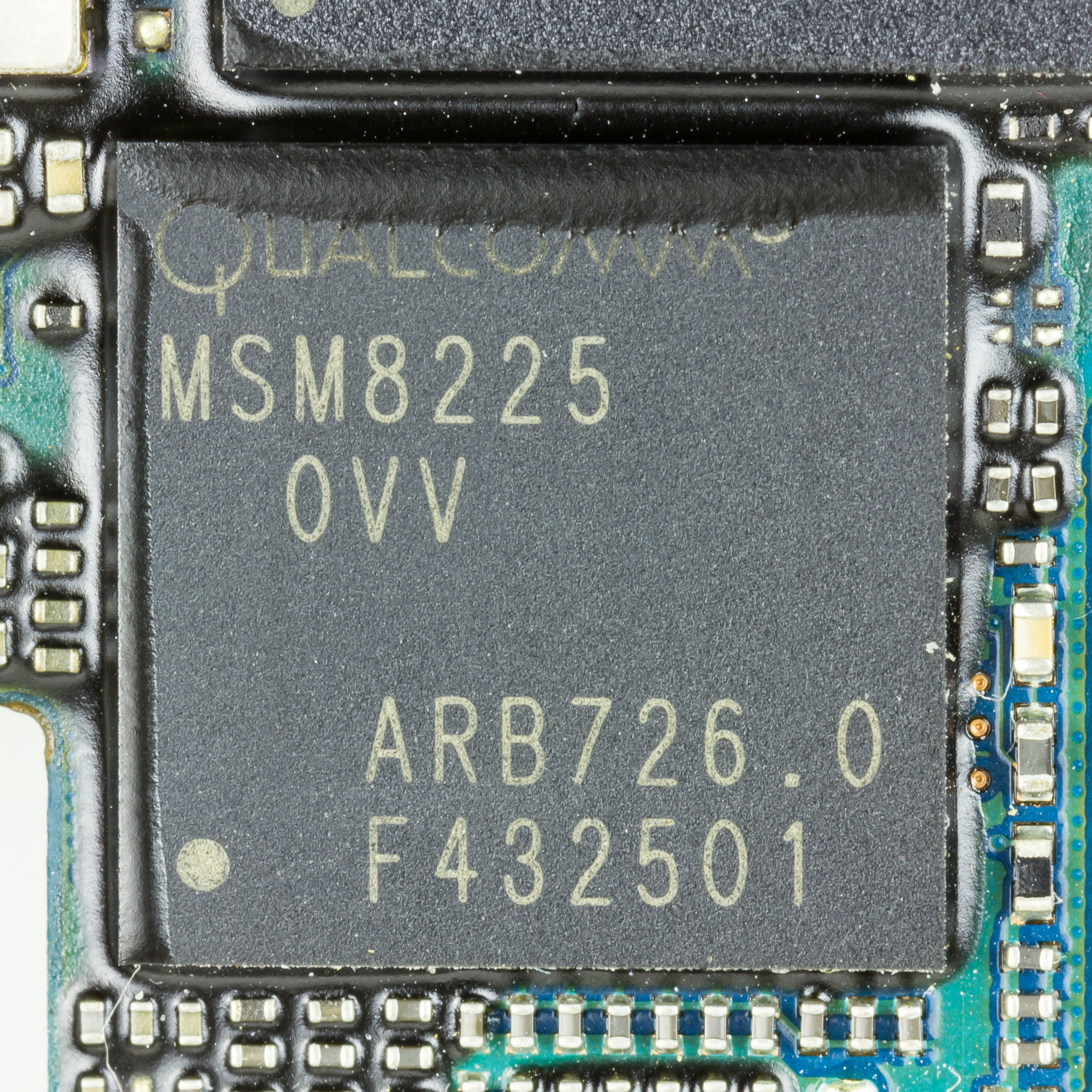 LG P710 Optimus L7 II - Qualcomm MSM8225 (System-on-a-Chip Snapdragon S4 Play) on main printed circuit board.